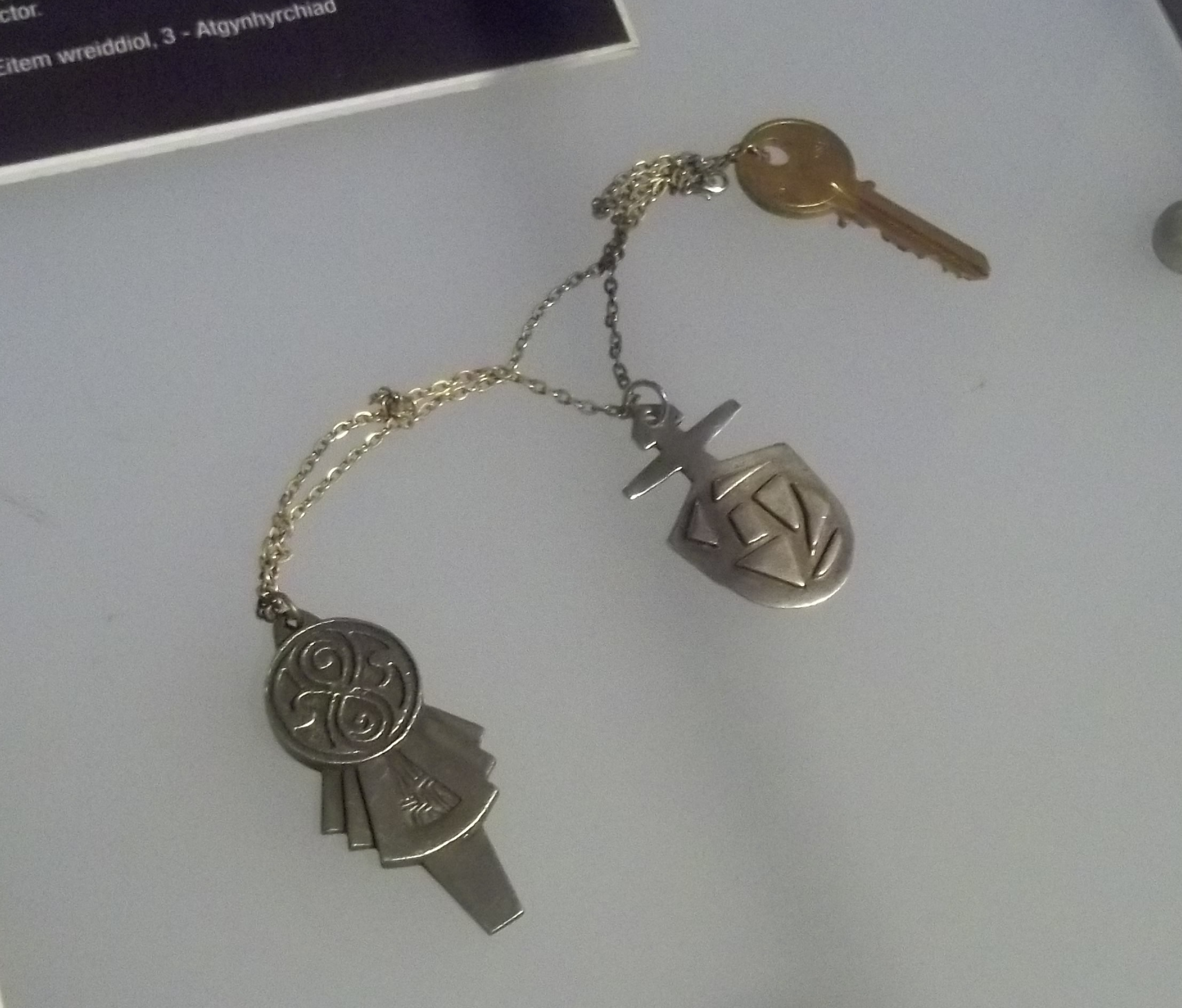 TARDIS Keys Doctor Who Experience